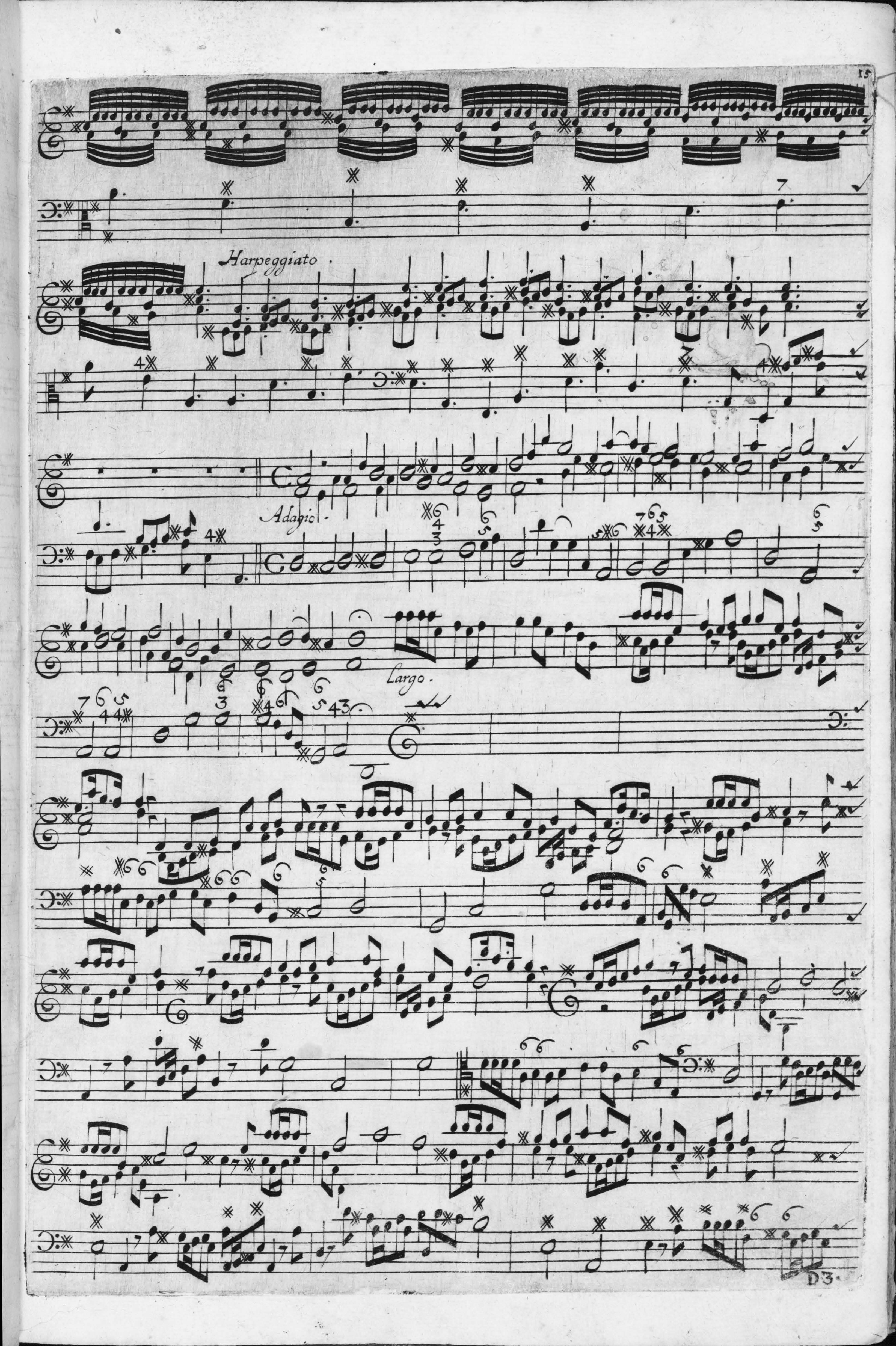 Page 15 (excerpt, Sonata III, D major) from Scherzi da Violino Solo, reprint from 1687.